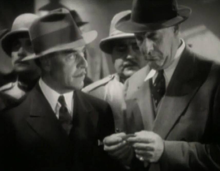 (foreground) Walter Kingsford (left) & Paul Harvey in Algiers - cropped screenshot